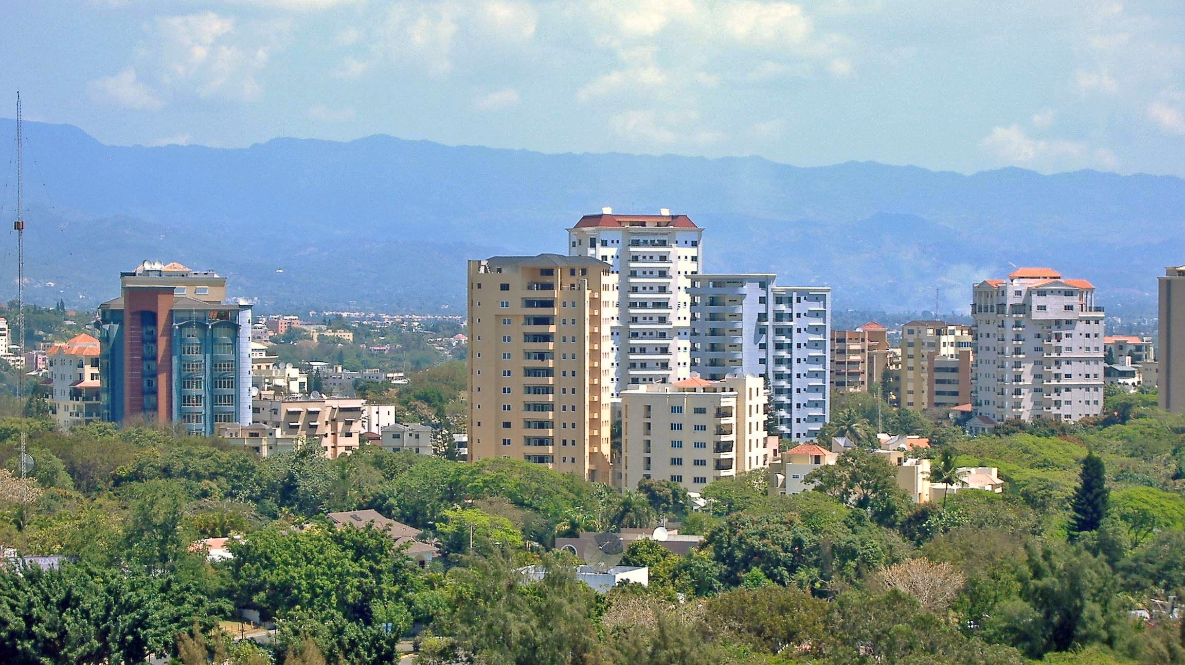 Picture taken from the Monument of Santiago.